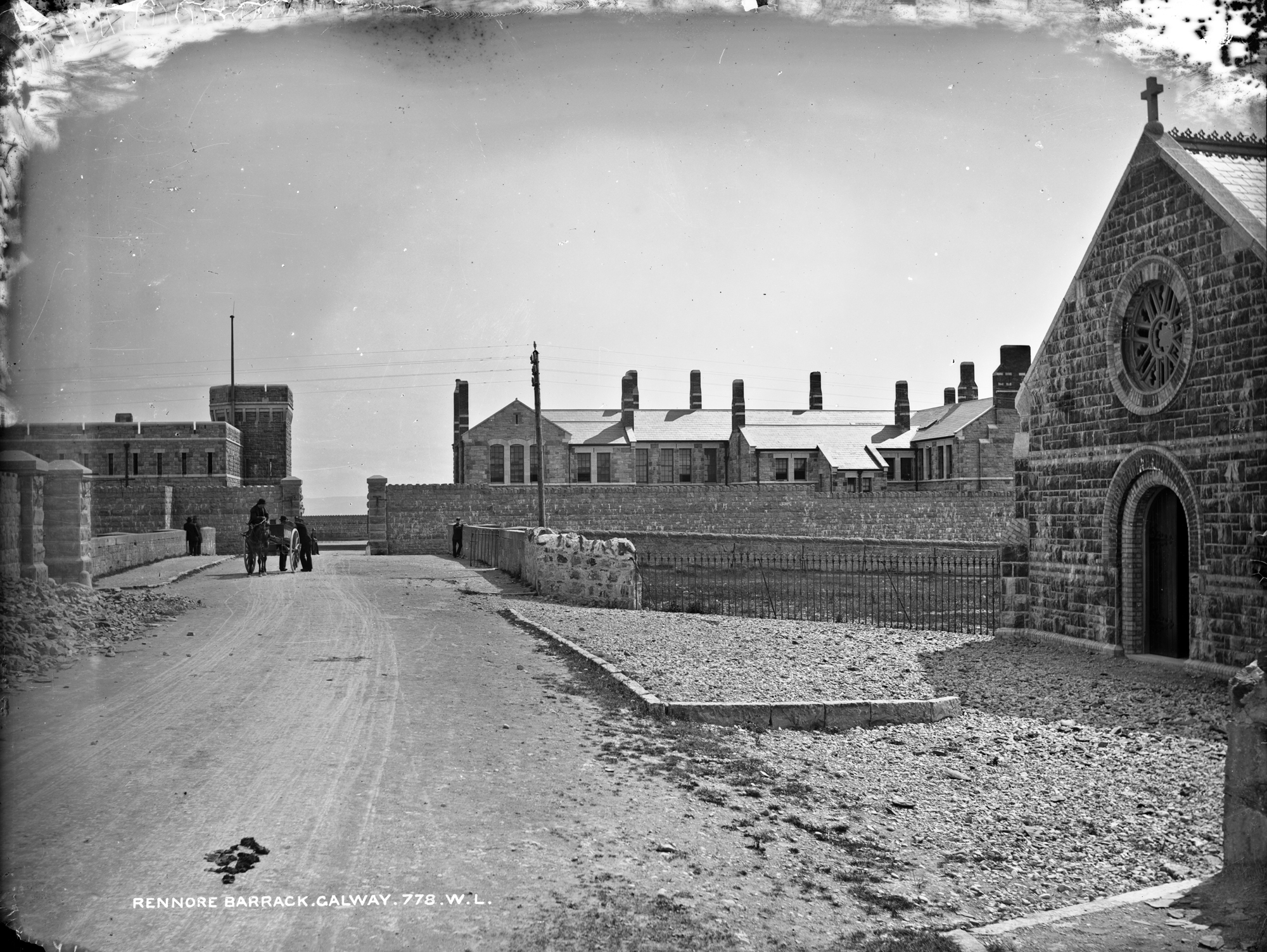 The home station of the Connaught Rangers Regiment of the British Army is today's image from the Lawrence Collection. Once a proud and distinguished regiment with many battle honours, it became famous in the Irish context when members of the regiment mutinied in response to the 1916 uprising and the subsequent execution of the leaders. While the StreetView driver wasn't brave enough to approach the guard gate, the view from the road outside still matches-up. The NIAH entries provided by [/photos/gnmcauley/ Niall McAuley] (on the magazine and church) suggest c.1880 as the lower-bound for the image date range. And maybe even an upper-bound not long after (as everything does look spanking new).... Photographer: Robert French Collection: Lawrence Photograph Collection Date: Catalogue range c.1865-1914. Likely after c.1880 NLI Ref: L_ROY_00778 You can also view this image, and many thousands of others, on the NLI’s catalogue at